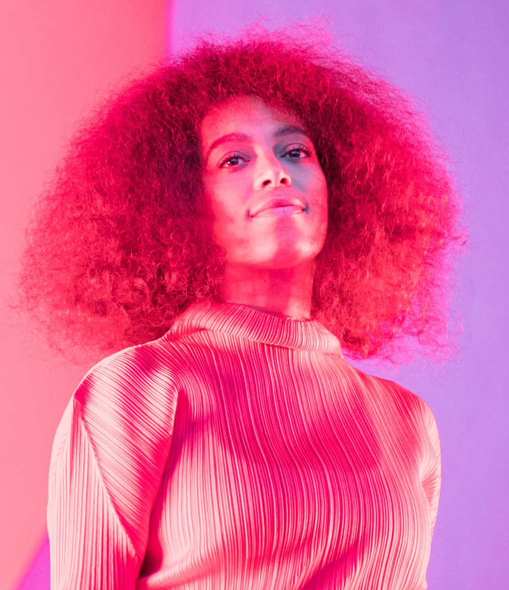 Solange at the stage of Piknik i Parken 2017. The concert took place on 23. June 2017 in Oslo.